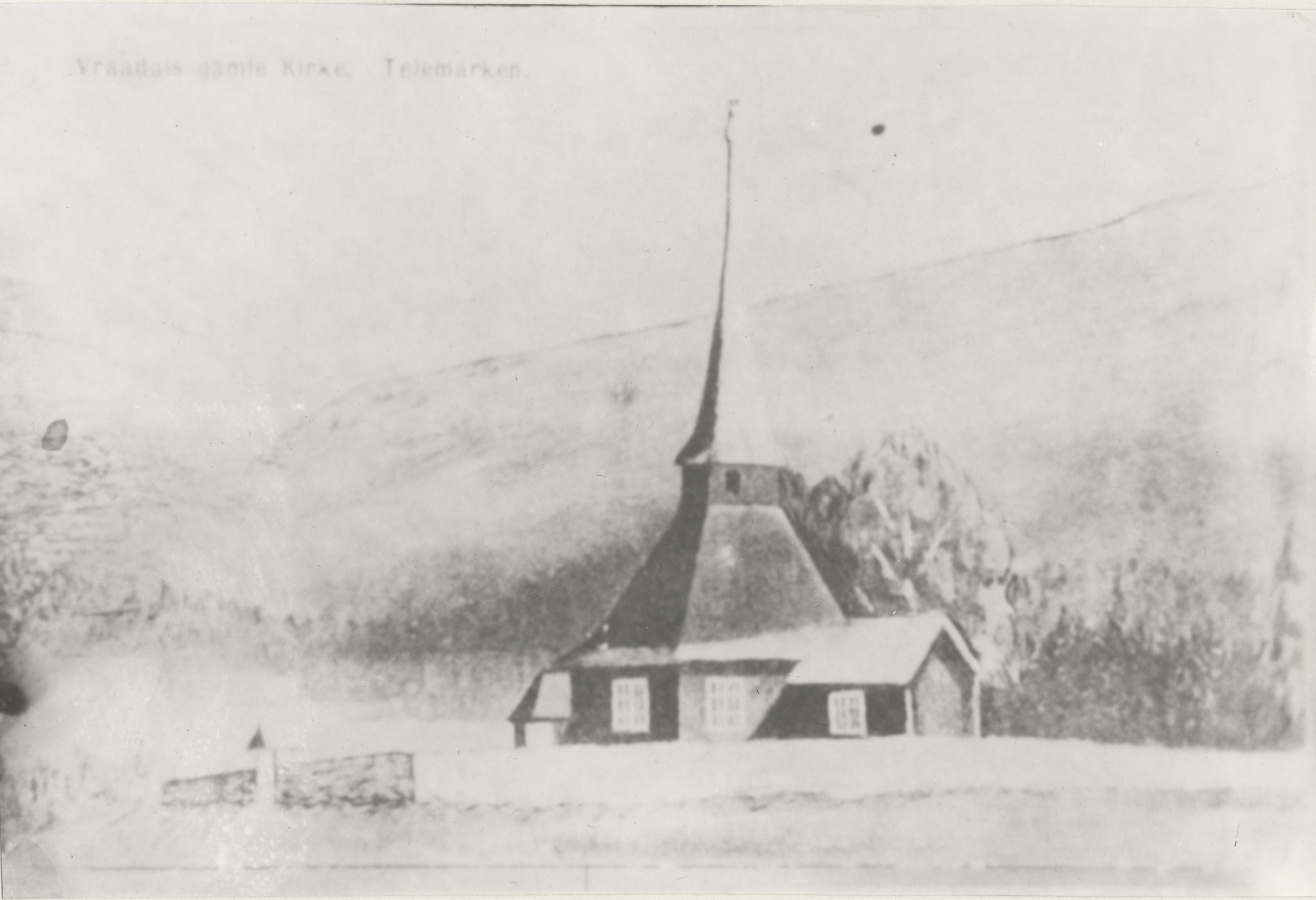 The old octagonal church in Vrådal, Kviteseid, Norway, church demolished 1886; photographic reproduction of postcard